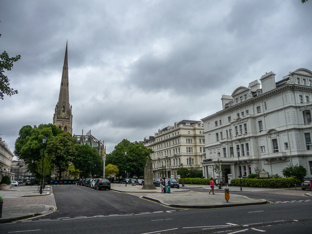 Christchurch, Lancaster Gate, London W2. Until 1865 only the square in this image was known as Lancaster Gate.